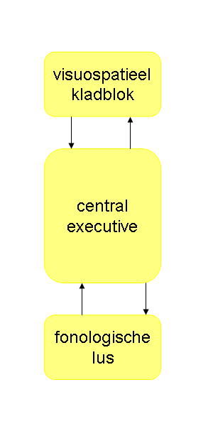 Working memory model of Baddeley and Hitch.